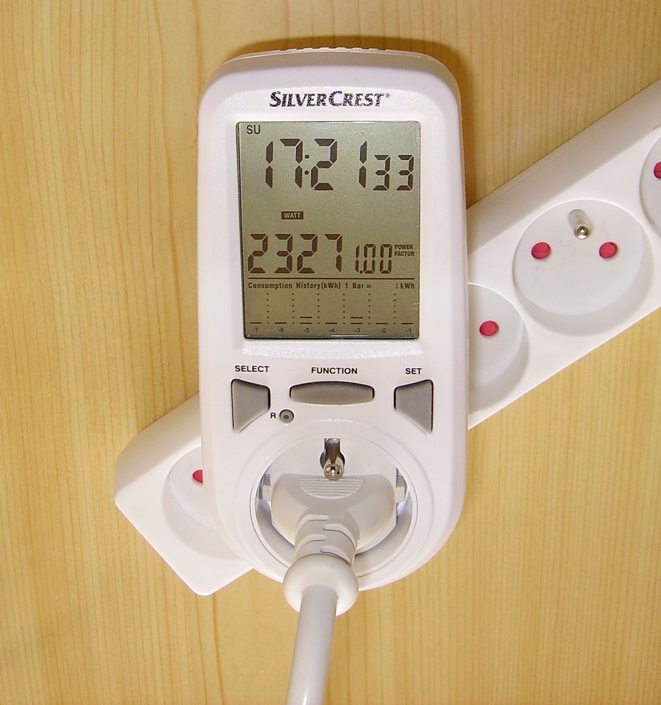 An electronic SilverCrest model Z30412FR power & energy monitor, plugged in to a socket in France, shown in use and displaying 2,327 watts being drawn by the plugged-in appliance (small 1,200/2,400 W fan heater bought in France). The power factor of the appliance is equal to 1.00.